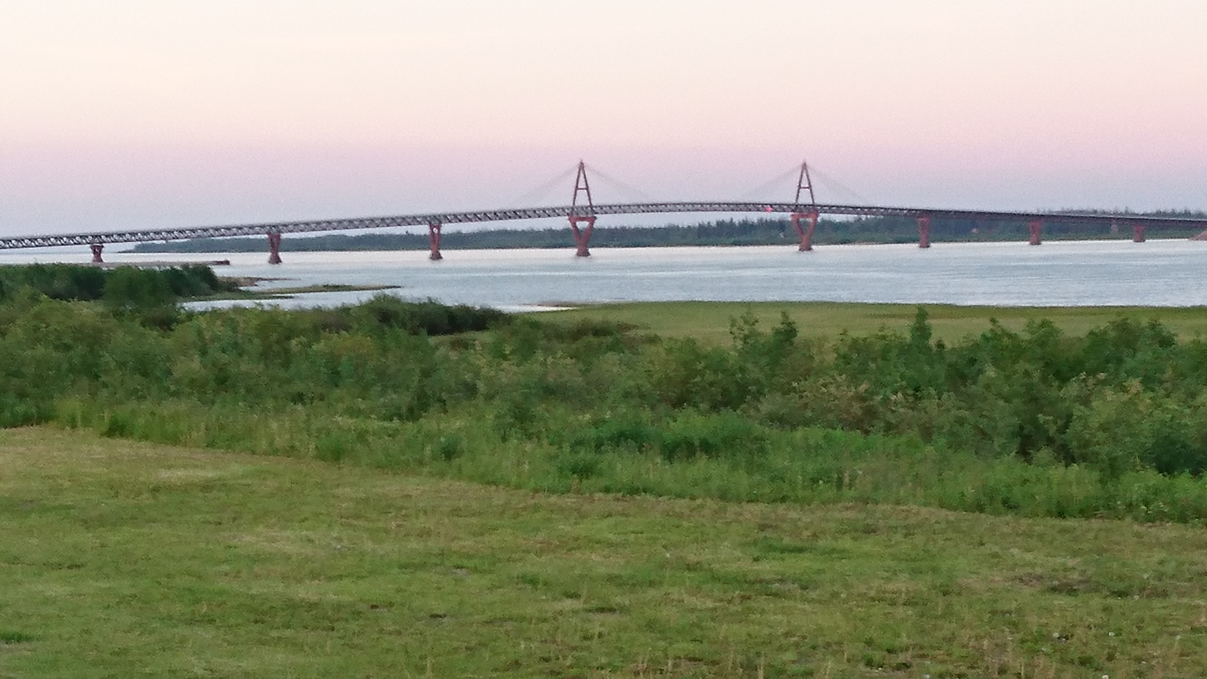 Close up the Deh Cho Bridge from the picnic/public viewing area.